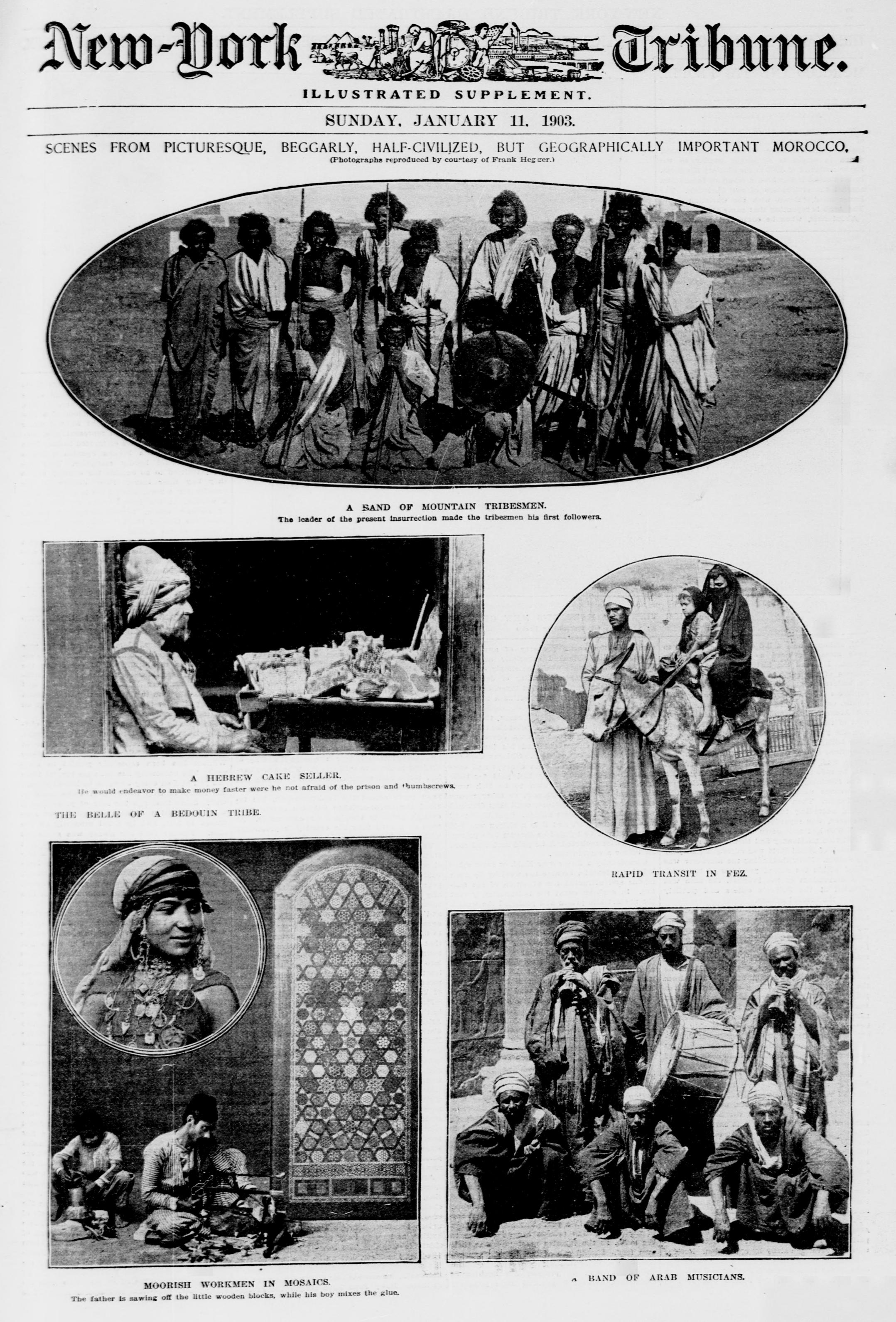 New-York tribune. (New York [N.Y.]) 1866-1924 January 11, 1903, Image 37 Notes: Cover, illustrated supplement. Format: Newspaper page, from microfilm Rights Info: No known restrictions on reproduction. Repository: Library of Congress, Serial and Government Publications Division, Washington, D.C. 20540 USA. Part Of: Chronicling America (Library of Congress) (DLC) - Persistent URL: More information about the Chronicling America Web site is available at